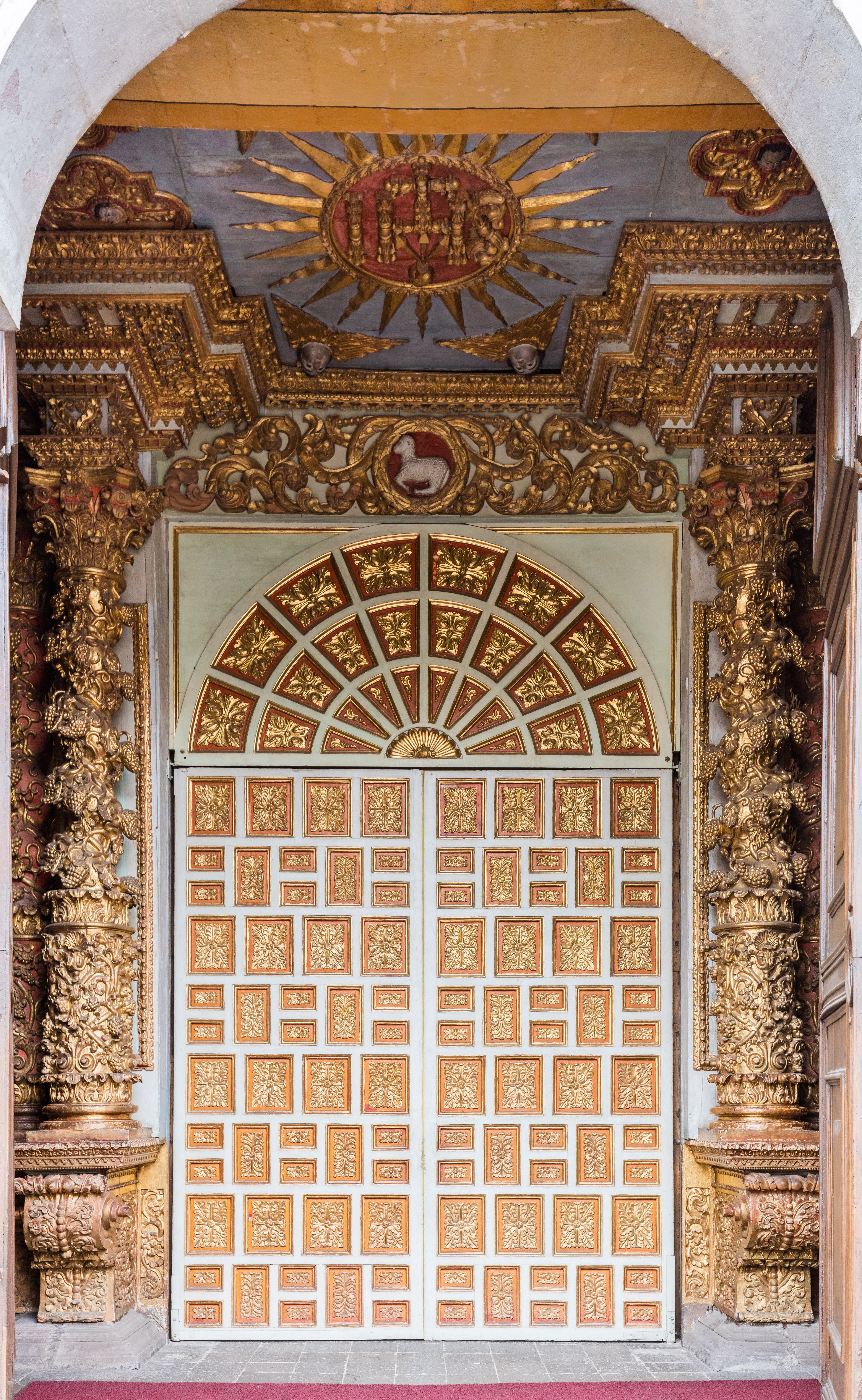 Church of the Society of Jesus, Quito, Ecuador